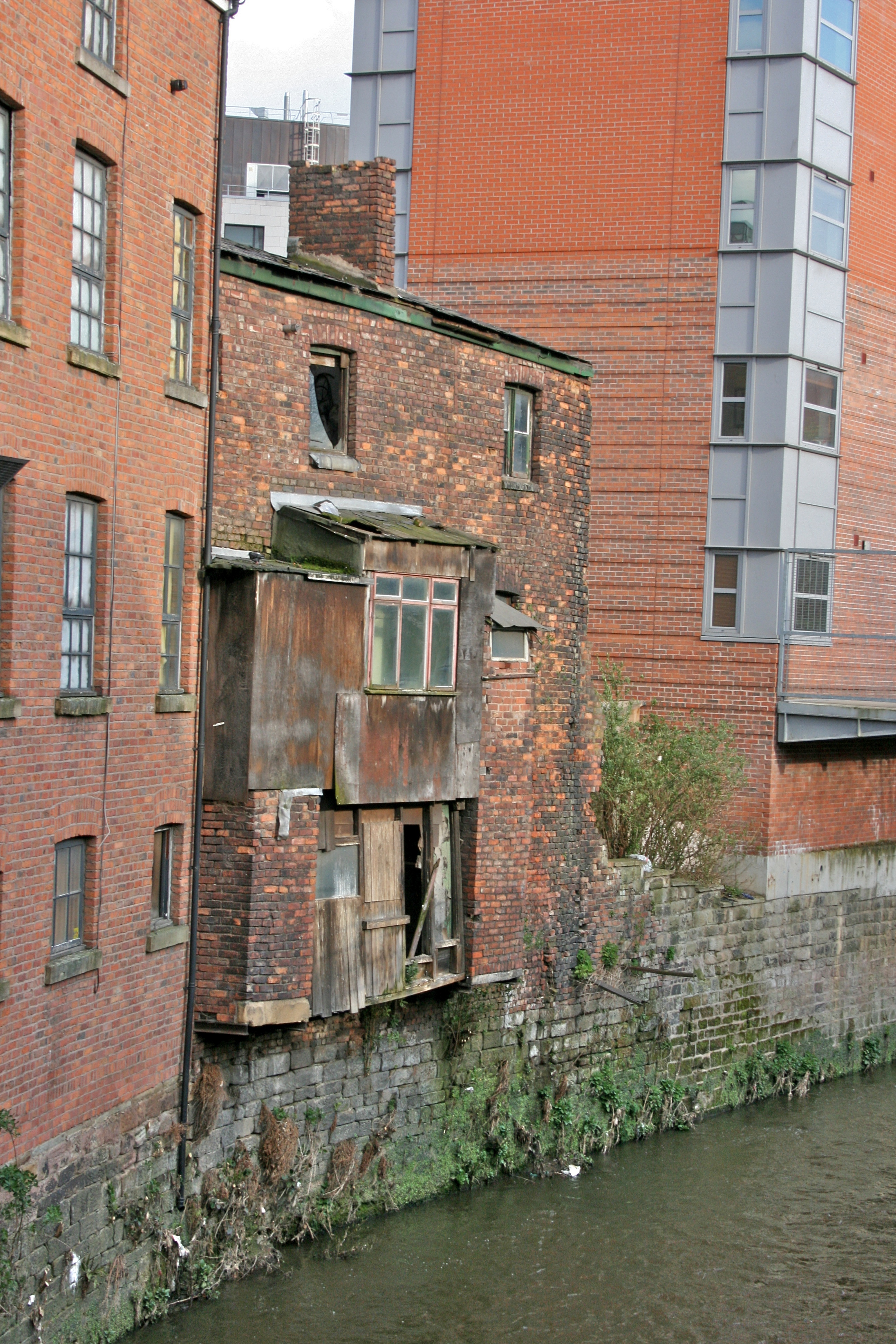 The rear of an old building on Princess Street, Manchester, England, believed to be an 18th century slum dwelling.